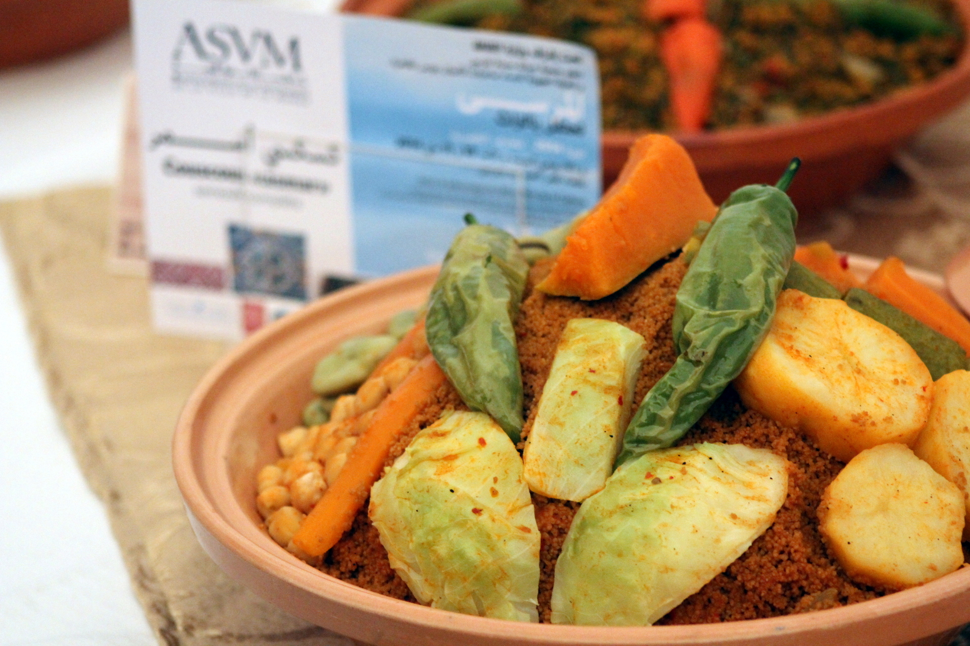 This is an image of food from Tunisia